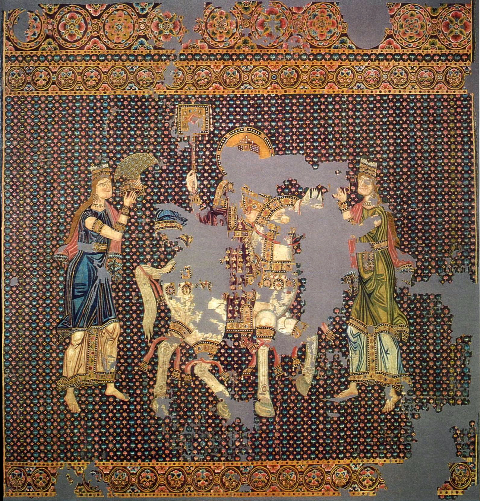 The so-called "Bamberger Gunthertuch", a Byzantine silk tapestry depicting a Byzantine emperor on his triumphant return from a campaign. He is crowned, bears the labarum and rides a white horse. Originally identified as Basil II (by A. Grabar), it is now accepted that he represents John I Tzimiskes on his return from the campaign against the Rus' in Bulgaria. He is flanked by two female tychae, who personify Constantinople's two demoi, the Blues and the Greens. The one on the right offers [possibly] a crown, and the one on the left a triumphal toupha headdress. The silk was acquired by Gunther, bishop of Bamberg, in 1064-5, and re-discovered on 22 December 1830 in his grave. The silk is now on display in the treasury of the Bamberg Cathedral.